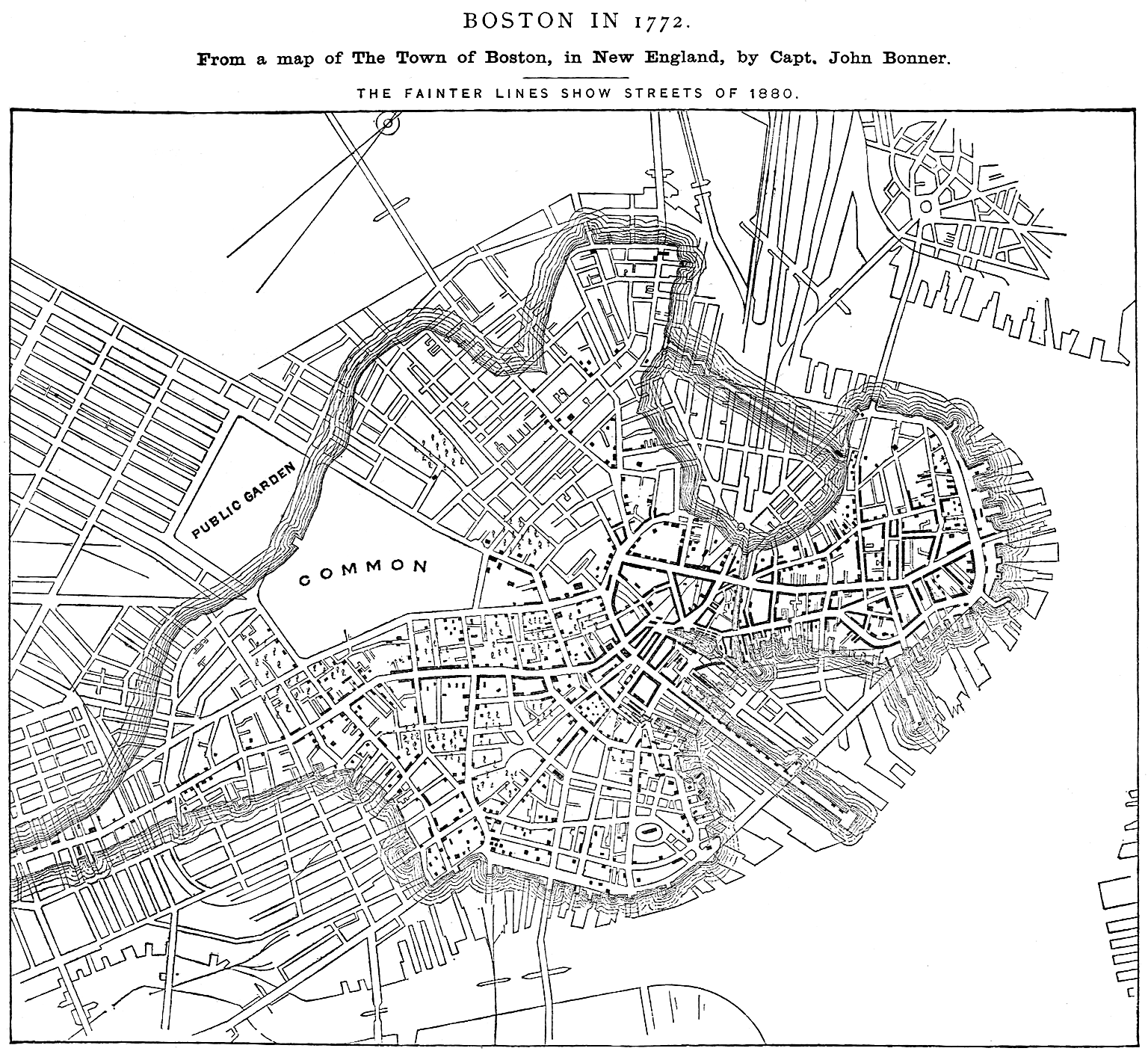 "Boston in 1772. From a map of The Town of Boston, in New England, by Capt. John Bonner" "The fainter lines show streets of 1880." From Report on the Social Statistics of Cities, Compiled by George E. Waring, Jr., United States. Census Office, Part I, 1886. Edited version of University of Texas image. "No permissions are needed to copy them. You may download them and use them as you wish."